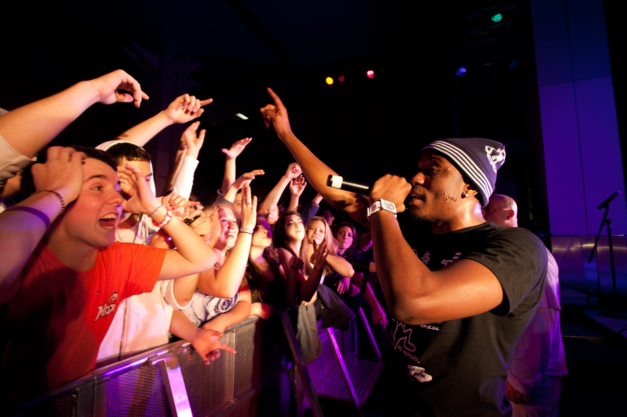 Chiddy Bang interacting with the crowd during his sold out concert at Rensselaer Polytechnic Institute in Troy, NY on December 4th, 2010